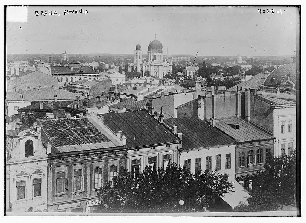 Bain News Service,, publisher. Braila, Rumania [between ca. 1915 and ca. 1920] 1 negative : glass ; 5 x 7 in. or smaller. Notes: Title from unverified data provided by the Bain News Service on the negatives or caption cards. Forms part of: George Grantham Bain Collection (Library of Congress). Format: Glass negatives. Repository: Library of Congress, Prints and Photographs Division, Washington, D.C. 20540 USA, General information about the Bain Collection is available at Higher resolution image is available (Persistent URL): Call Number: LC-B2- 4066-1